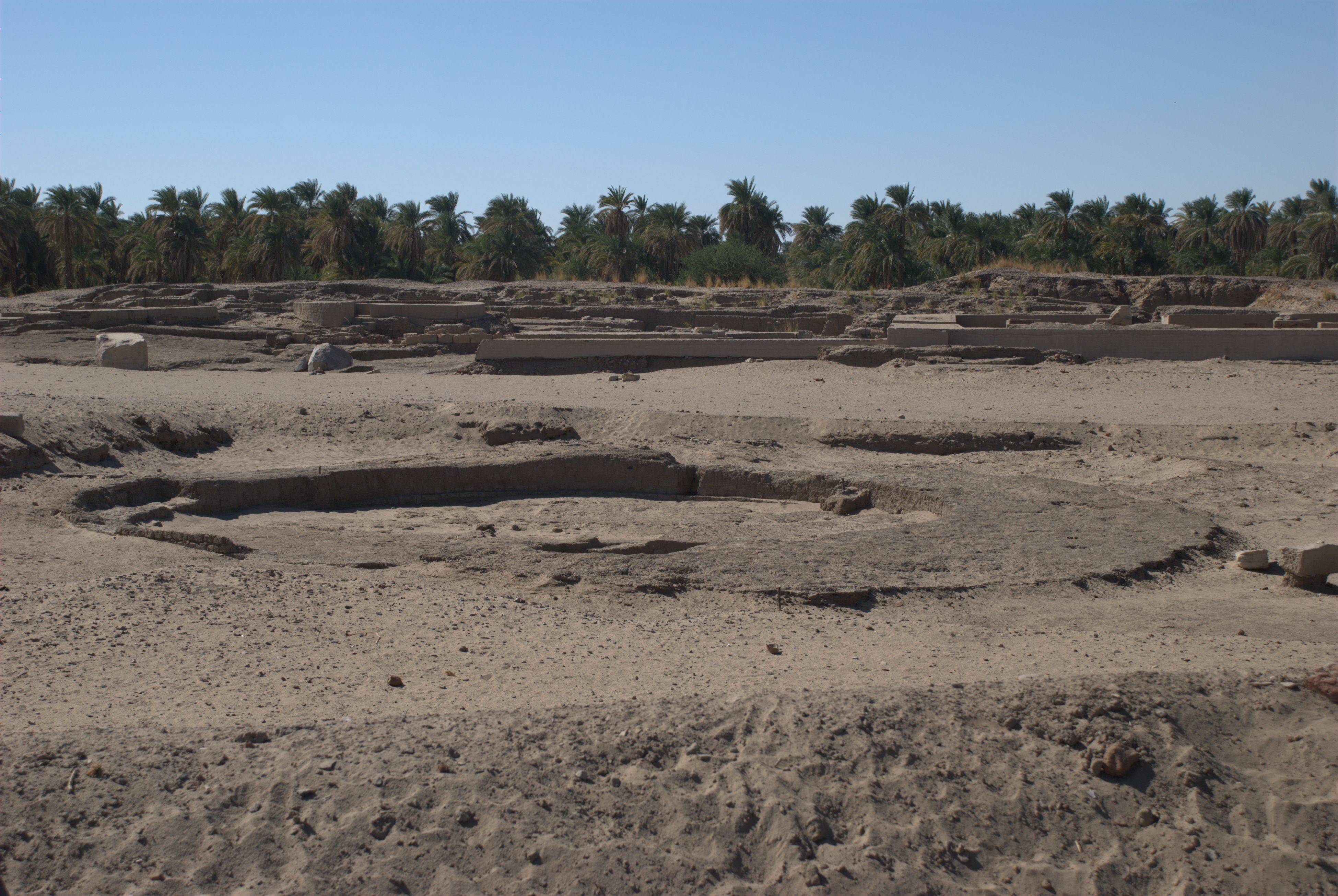 Kerma, Sudan, egyptian Pnubs near western Deffufa